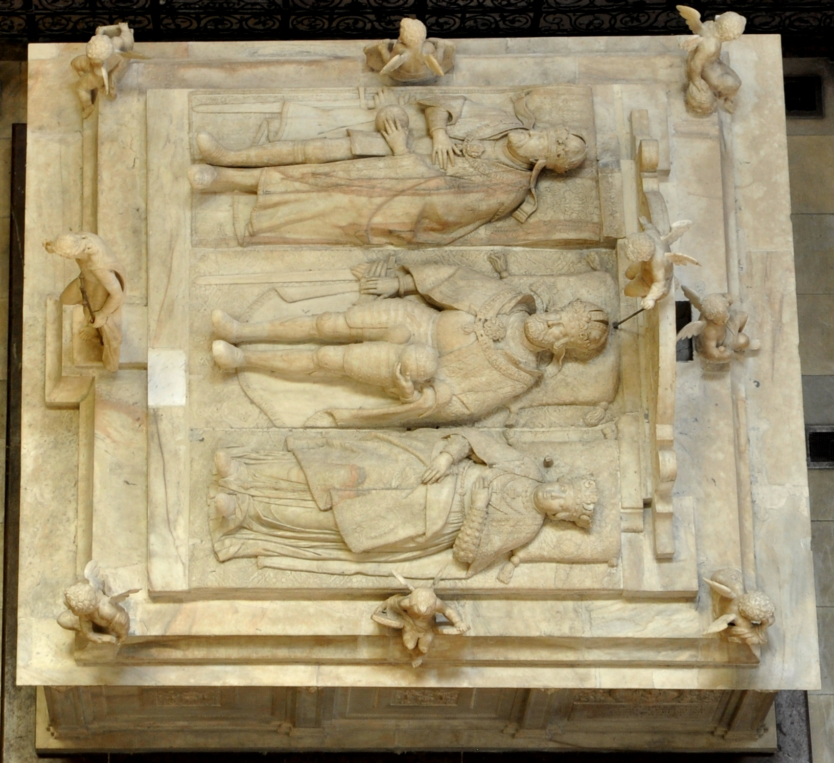 Royal Mausoleum in St. Vitus Cathedral at Prague Castle.